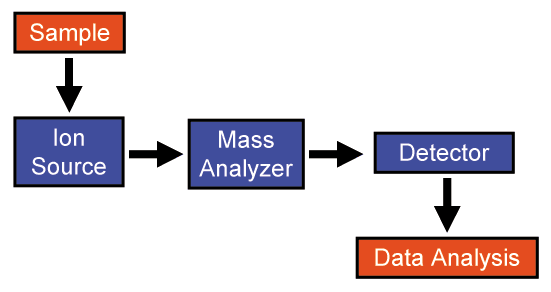 Diagram of the main components of a mass spectrometer.